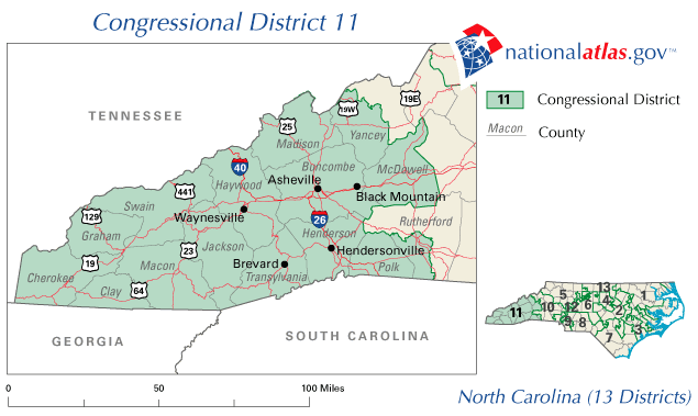 North Carolina's 11th congressional district prior to 2012 redistricting